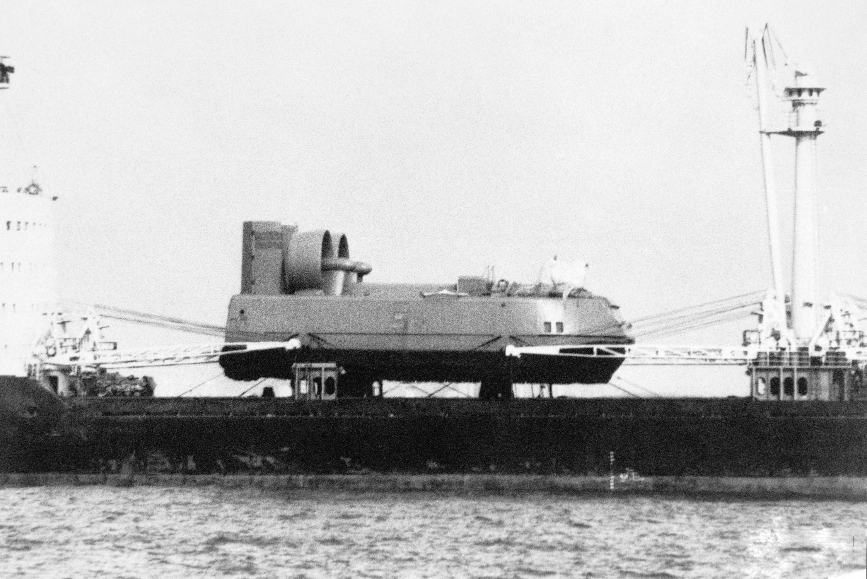 Right side view of a Soviet Lebed class air cushion vehicle on the deck of a transport ship.